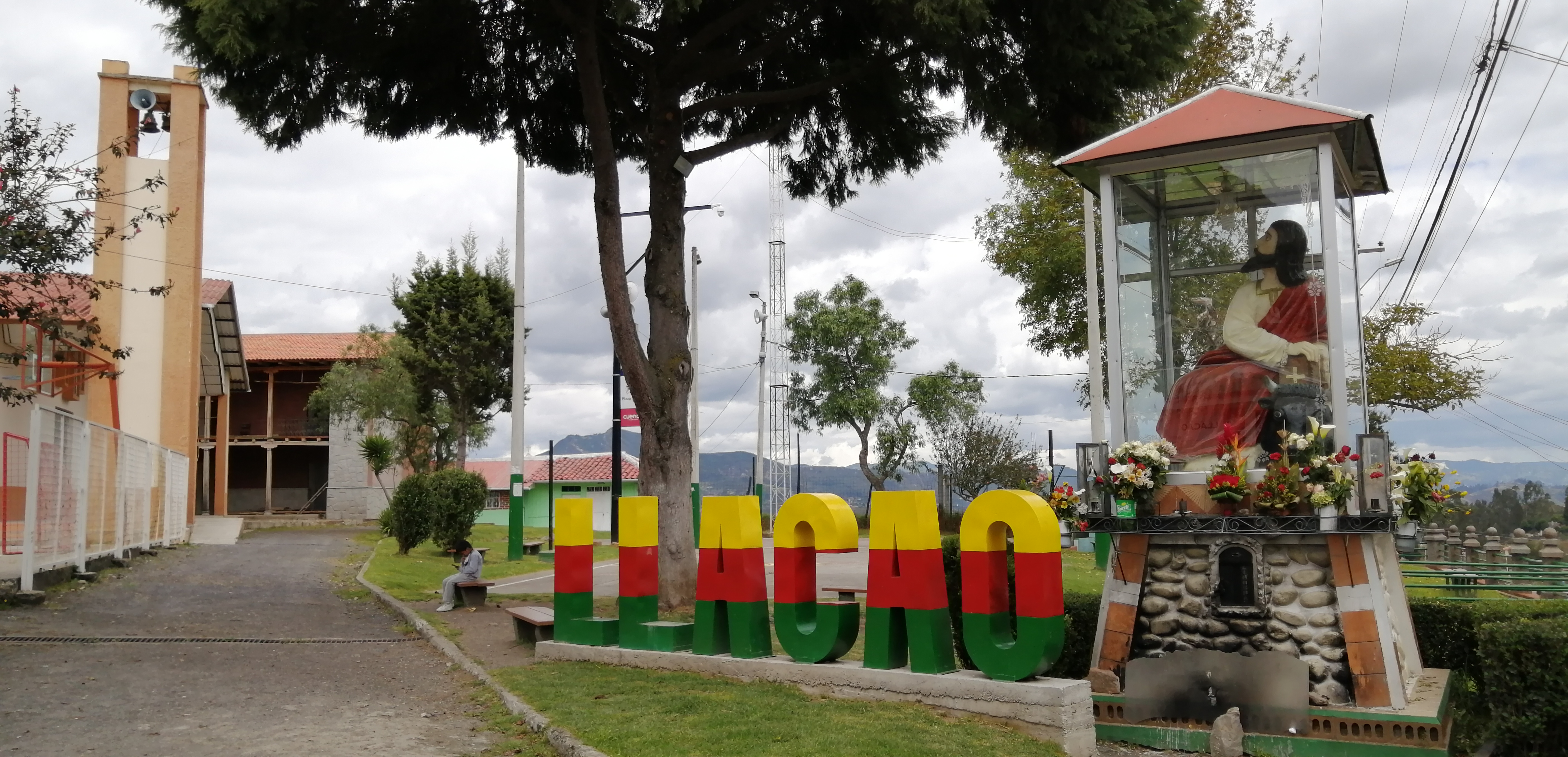 Llacao's central park and St. Lucas sign